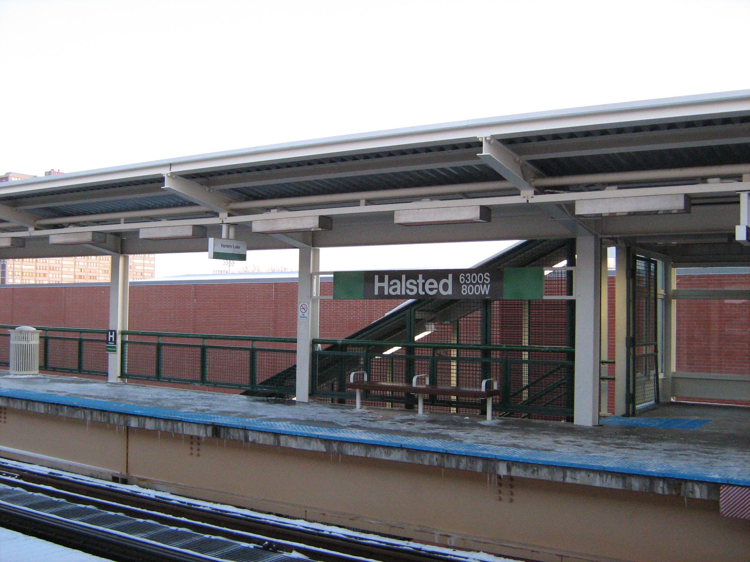 63rd/Halsted CTA Green Line Station 6321 S. Halsted St. Chicago, IL 60621 Green Line (Englewood Branch)